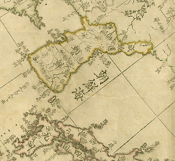 Japanese map, 新訂萬國全圖 The map, 202 centimeters in length and 118 centimeters in width, was drawn up in 1807 by Takahashi Kakeyasu , an astronomer of the Edo Period. The map was printed from a copperplate in 1810. Early 19th century Japanese map that marked the seaway between Korea and Japan as “Sea of Joseon(朝鮮海).” Joseon was the old name of Korea from 1392-1910.